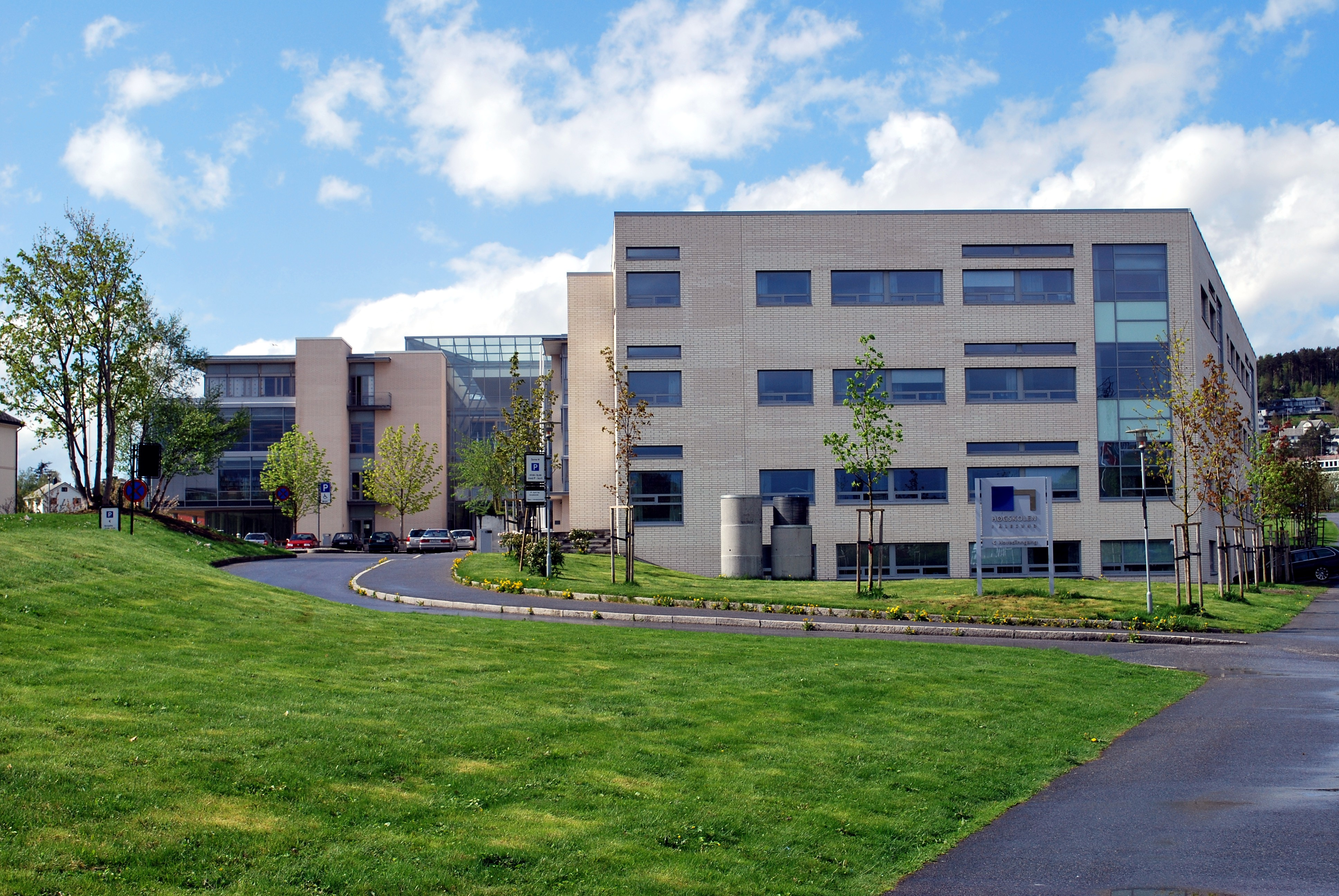 Høgskolen i Ålesund, Ålesund University College.